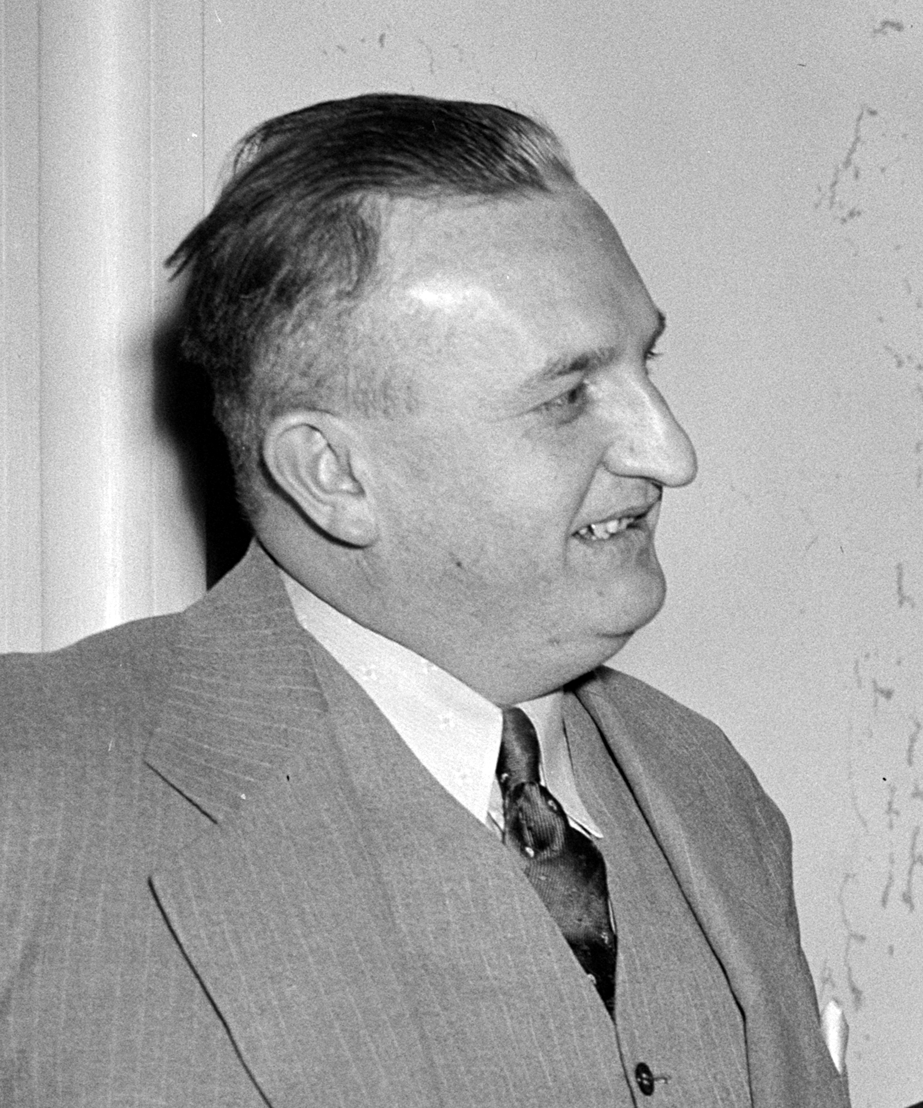 John M. Coffee, US Representative from Washington